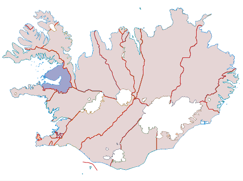 A map of the county Dalasýsla in Iceland. Based on a map from the National Land Survey of Iceland. No copyright protedtion on the original map. "Á þessari síðu eru sett fram nokkur kort sem heimilt er að nota í ýmsum tilgangi, án sérstaks leyfis frá stofnuninni. Fleiri kort munu bætast við á næstunni. Smelltu á kortið og þú færð upp stærri mynd.